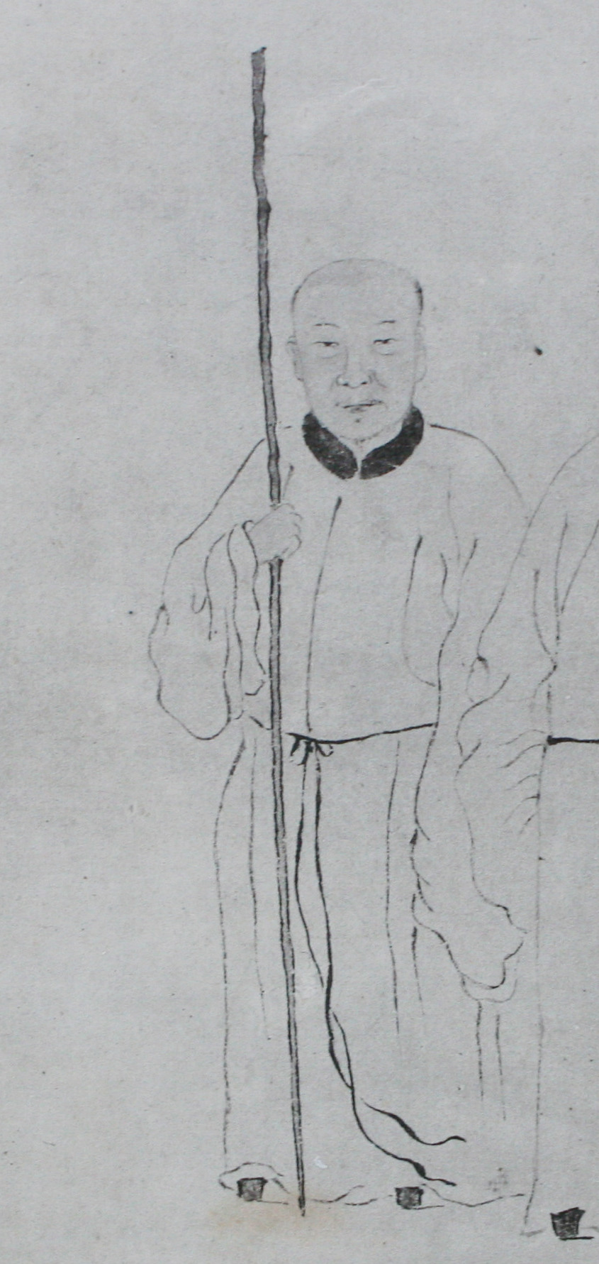 Zhu Yizun (1629-1709）by Zhu Henian (1760-1834 ) painter This drawing was burnt off in WWII bombing.